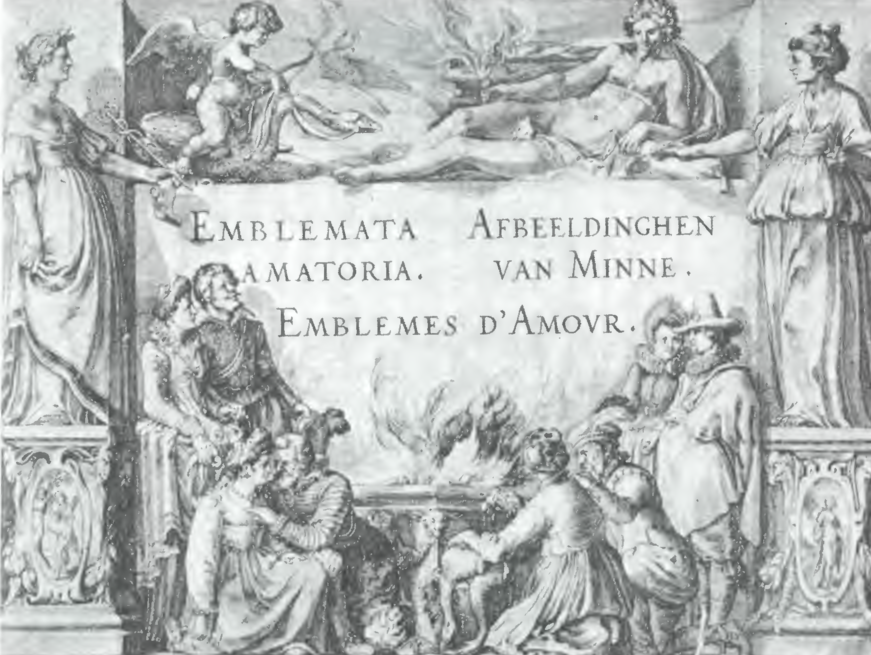 Title page of Hoofts first published poetry, depicting Cupido and Venus on top and the muse of Poetry on the left, and Painting on the right.